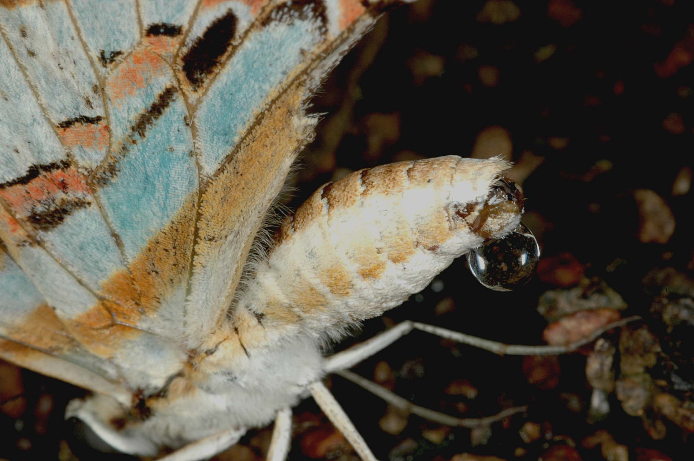 Spot Swordtail excreting excess water sucked up during mudpuddling. Taken at Yewoor.